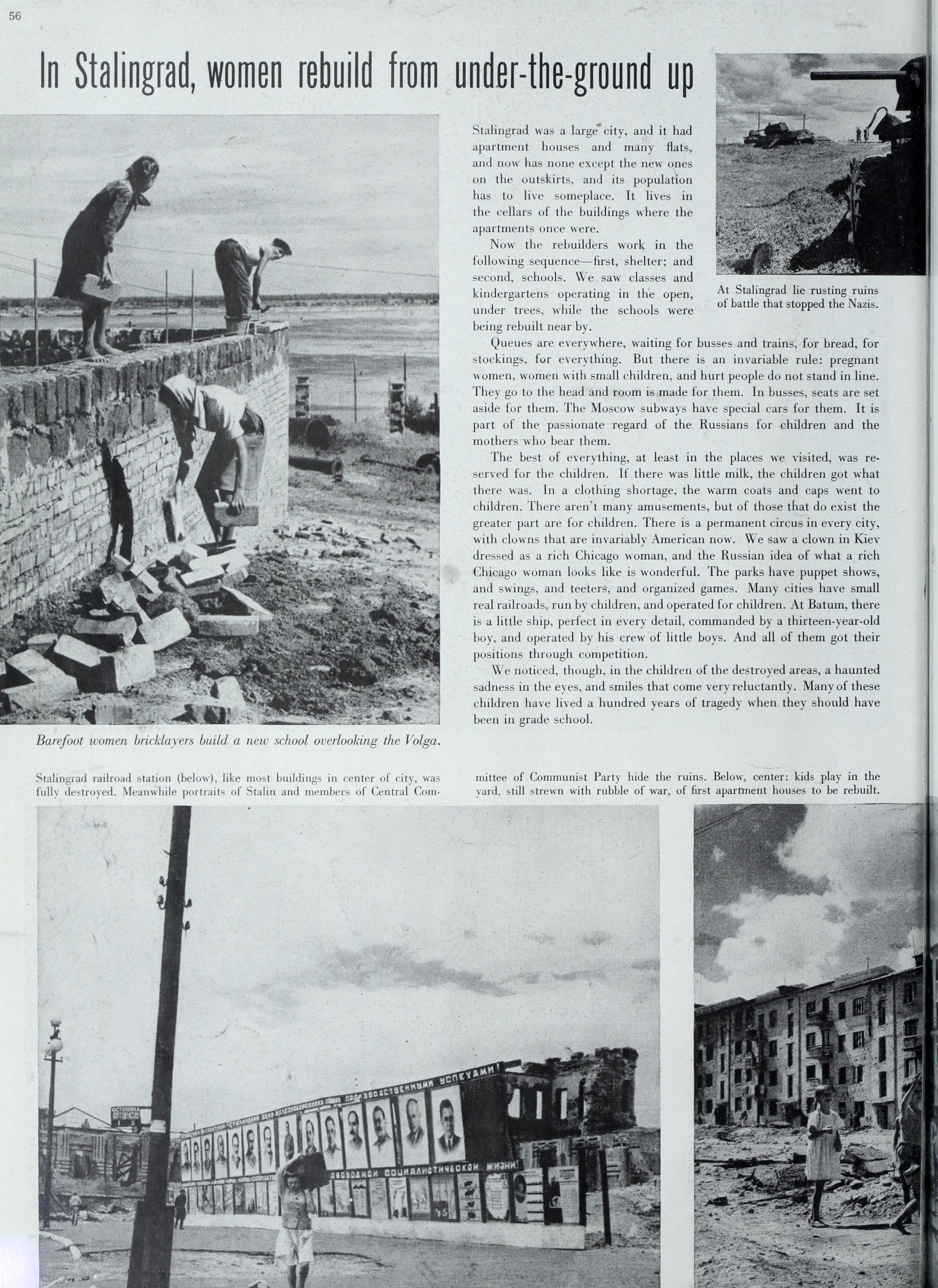 Title: The Ladies' home journal Year: 1889 (1880s) Authors: Wyeth, N. C. (Newell Convers), 1882-1945 Subjects: Women's periodicals Janice Bluestein Longone Culinary Archive Publisher: Philadelphia : (s.n.) Text Appearing Before Image: e that do exist thegreater part are for children. There is a permanent circus in every city,with clowns that are invariably American now. We saw a clown in Kievdressed as a rich Chicago woman, and the Russian idea of what a richChicago woman looks like is wonderful. The parks have puppet shows,and swings, and teeters, and organized games. Many cities have smallreal railroads, run by children, and operated for children. At Batum, thereis a little ship, perfect in every detail, commanded by a thirteen-year-oldboy, and operated by his crew of little boys. And all of them got theirpositions through competition. We noticed, though, in the children of the destroyed areas, a hauntedsadness in the eyes, and smiles that come very reluctantly. Many of thesechildren have lived a hundred years of tragedy when they should havebeen in grade school. mittee of Communist Party hide the ruins. Below, center: kids play in theyard, still strewn with rubble of war, of first apartment houses to be rebuilt. Text Appearing After Image: '